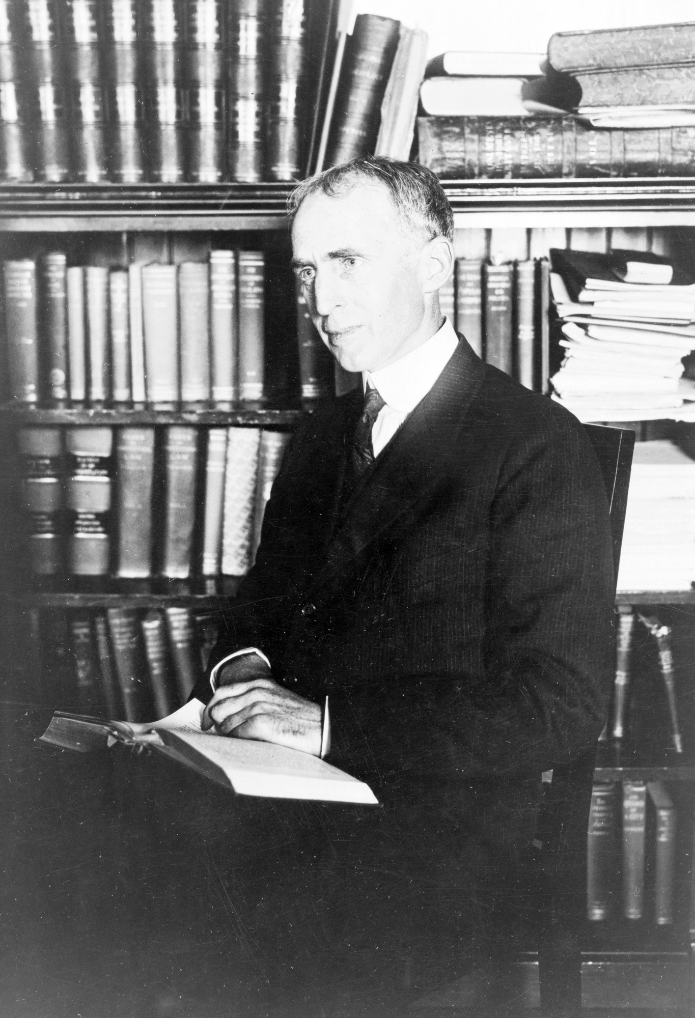 Charles A. Beard in 1917 (1874–1948) to help restore Tokyo CALL NUMBER: BIOG FILE - Beard, Charles Austin, 1874-1948 [P&P] REPRODUCTION NUMBER: LC-USZ62-122949 (b&w film copy neg.) No known restrictions on publication. SUMMARY: Charles A. Beard, three-quarter length portrait, seated, facing left, holding book. MEDIUM: 1 photographic print. NOTES: Bain News Service photograph. George Grantham Bain Collection (Library of Congress). Original negative may be available: LC-B2-4361-12. FORMAT: Portrait photographs 1920-1930. Photographic prints 1920-1930. REPOSITORY: Library of Congress Prints and Photographs Division Washington, D.C. 20540 USA